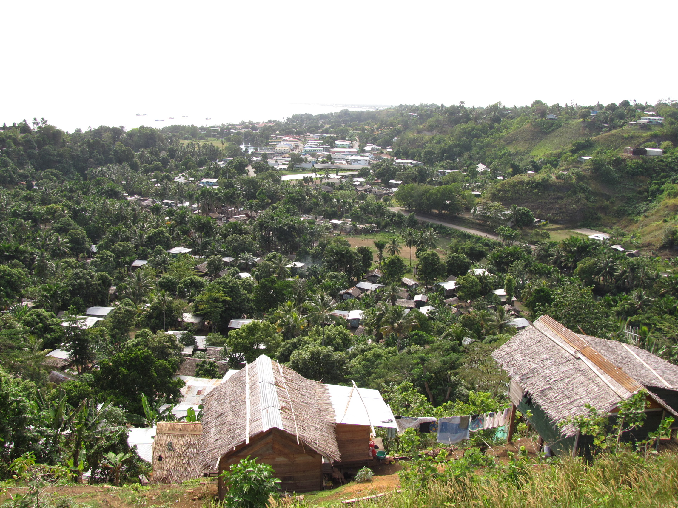 Honiara, Solomon Islands